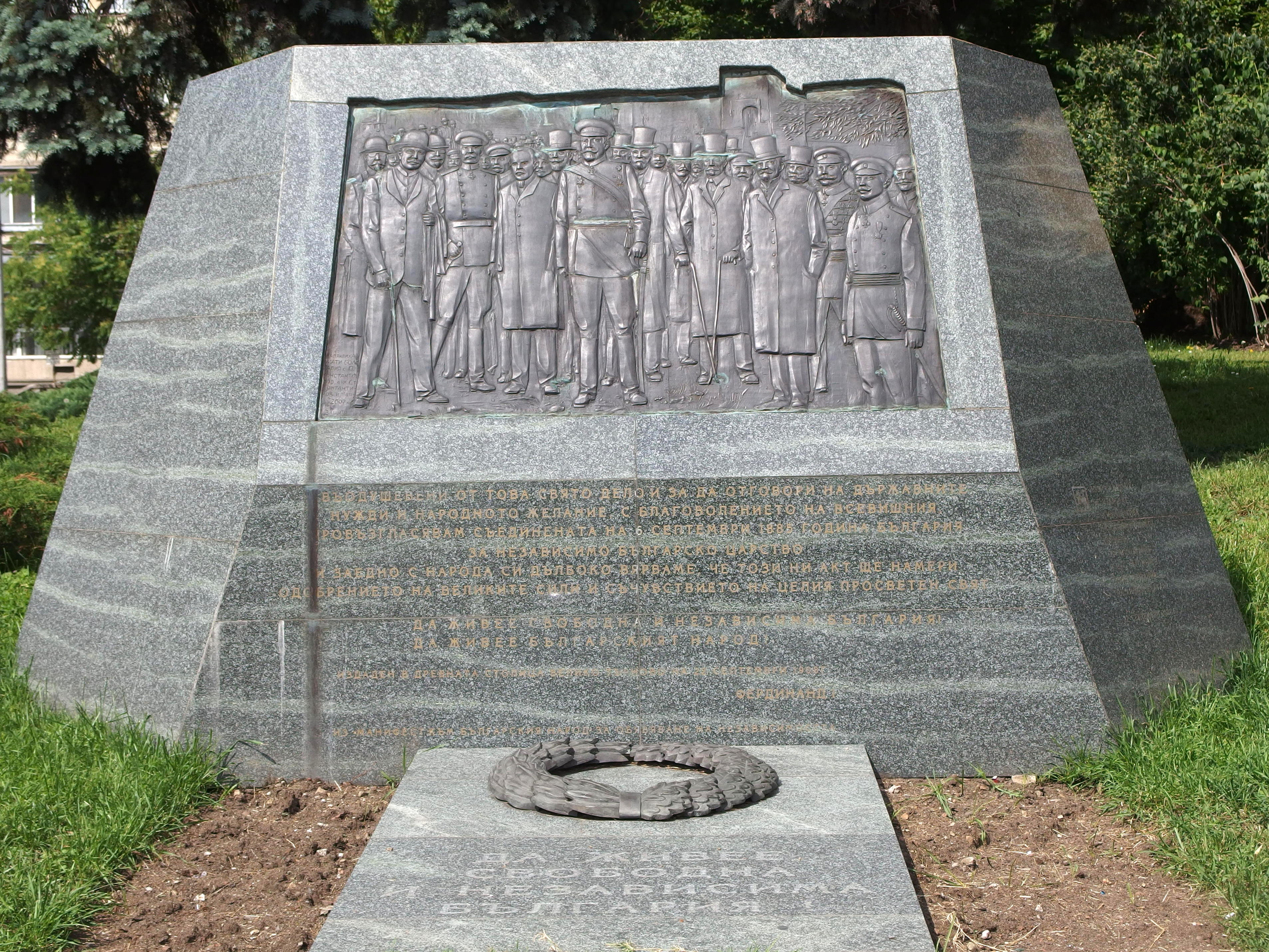 2014-06-14 in Sofia.